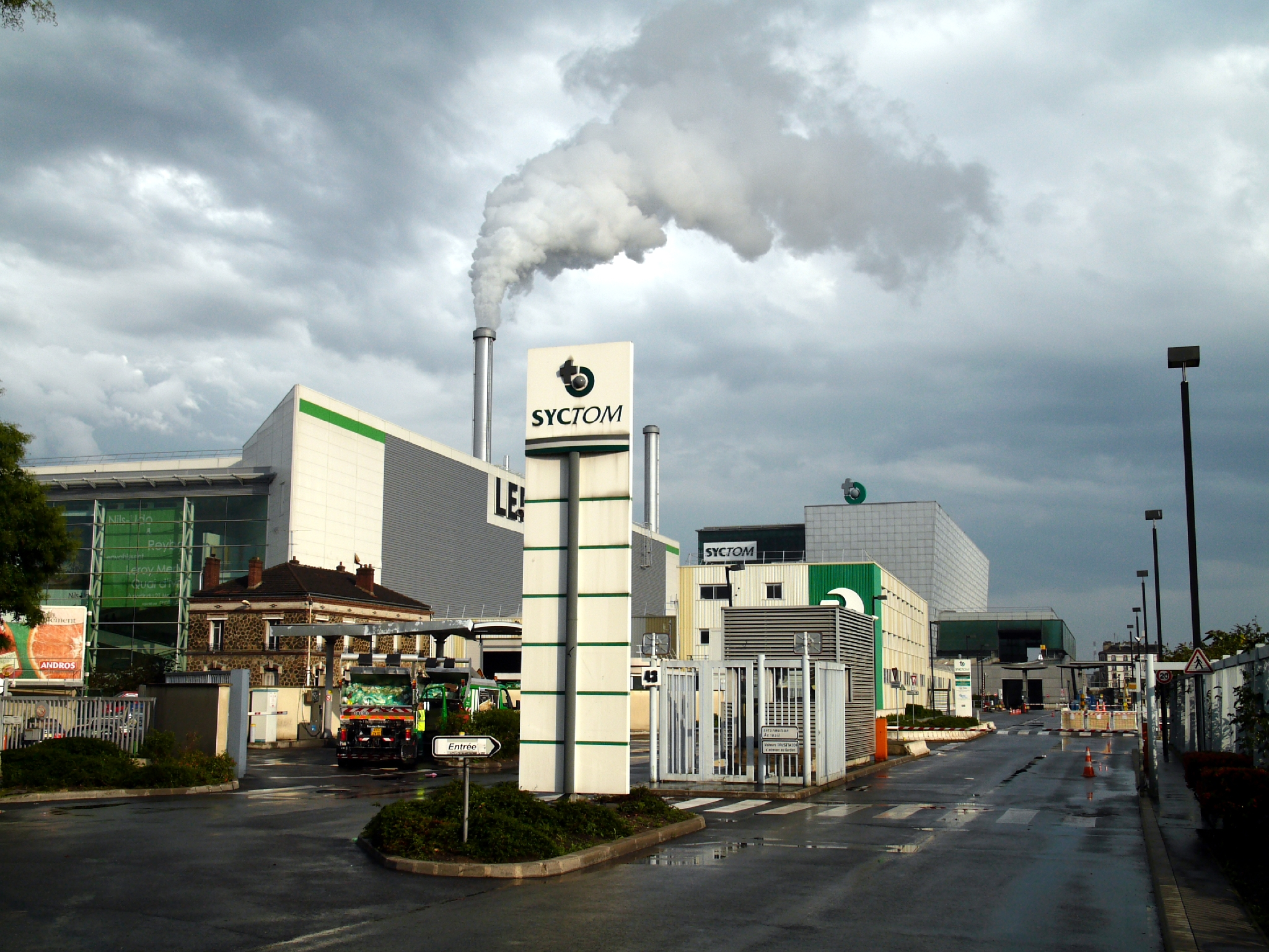 Incineration Plant, Ivry sur Seine, France